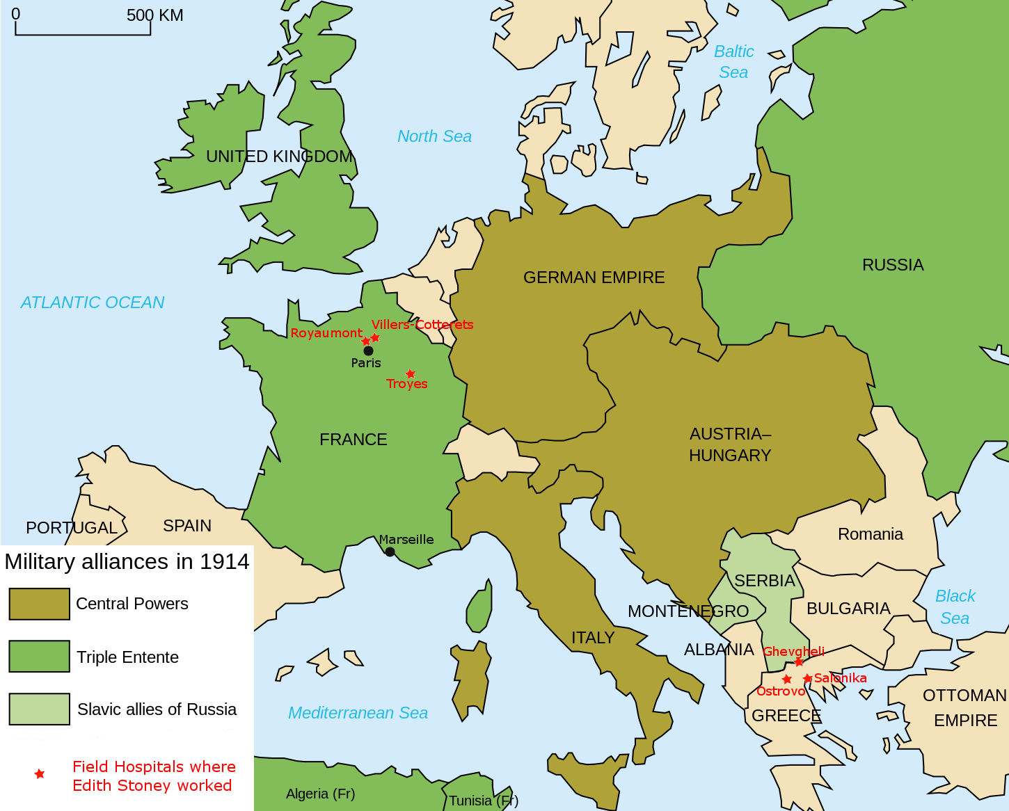 Map locating the different field hospital where Edith Anne Stoney worked during WWI. Based map modified from historicair map translated by Fluteflute & User:Bibi Saint-Po available on Wikimedia commons (Map_Europe_alliances_1914-en.svg)